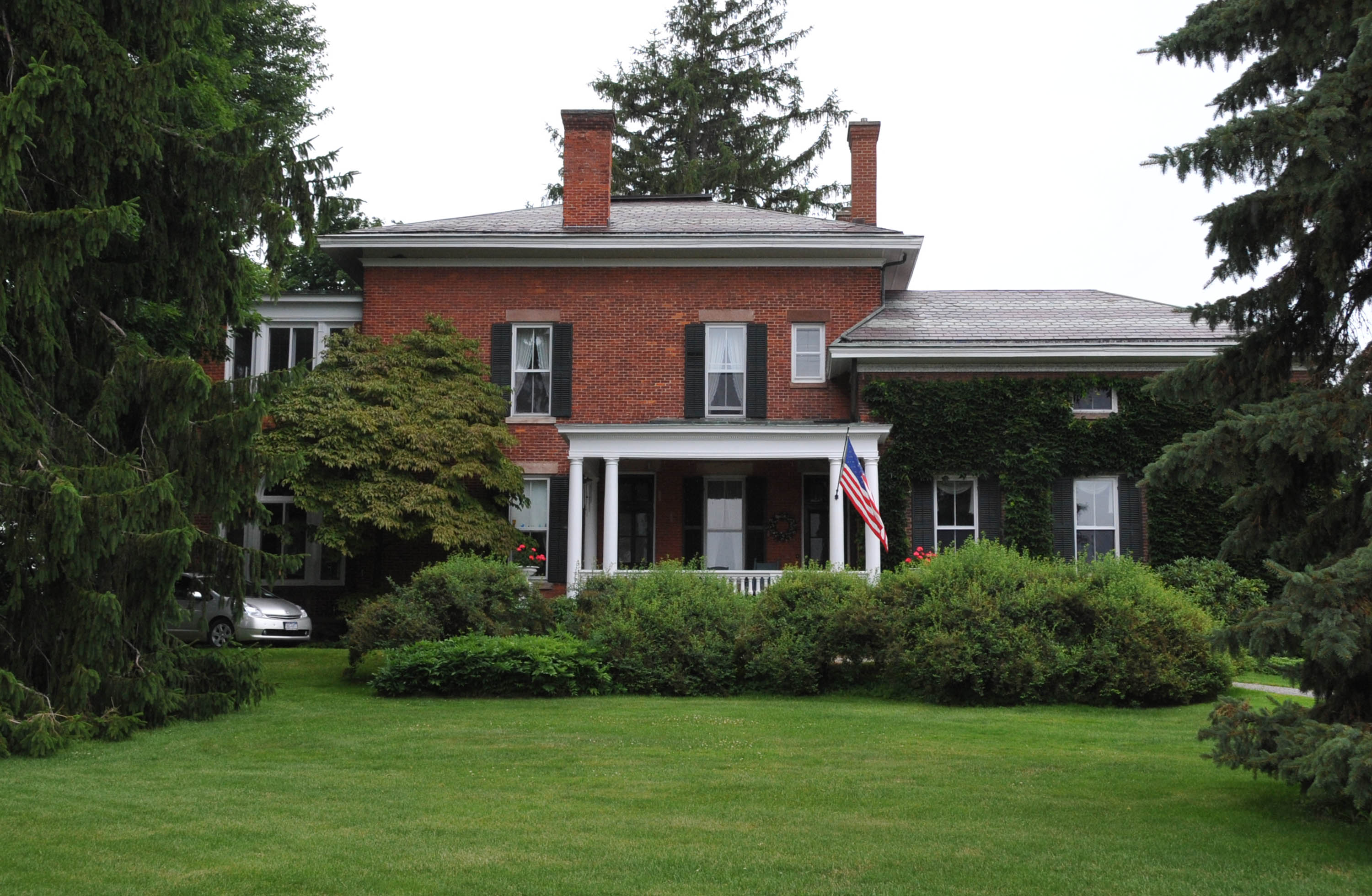 HOUSE BUILT 1869-1870 FOR SUCCESSFUL FARMER, CIVIL WAR VETERAN AND TOWN ASSESSOR. THE DISTINCTIVE BRICK HOME WAS A STATEMENT OF A FAMILY'S EVOLUTION FROM ITS PIONEER BEGINNINGS IN THE EARLY 19TH CENTURY TO THAT OF WEALTHY ESTATE OWNERS BY THE TURN OF THE 20TH CENTURY.